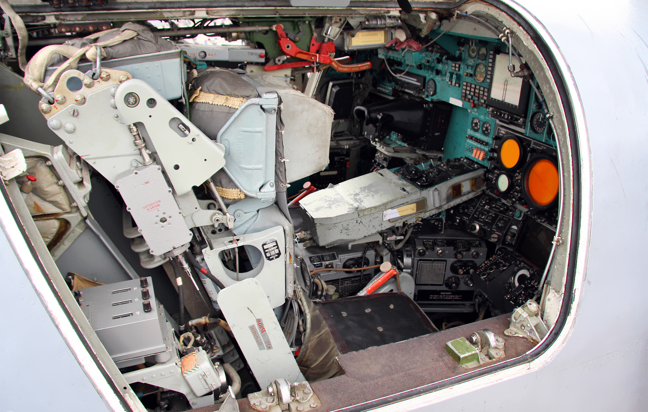 Cockpit of Tupolev Tu-22M3 bomber, navigator panel